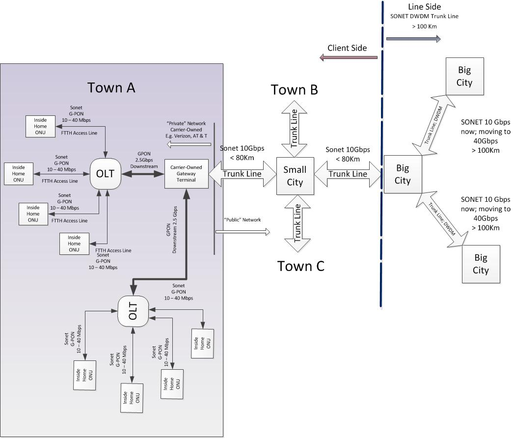 High-level fiber optic communication system depicting OLTs, ONUs, and demarcating Line-side and Client-Side